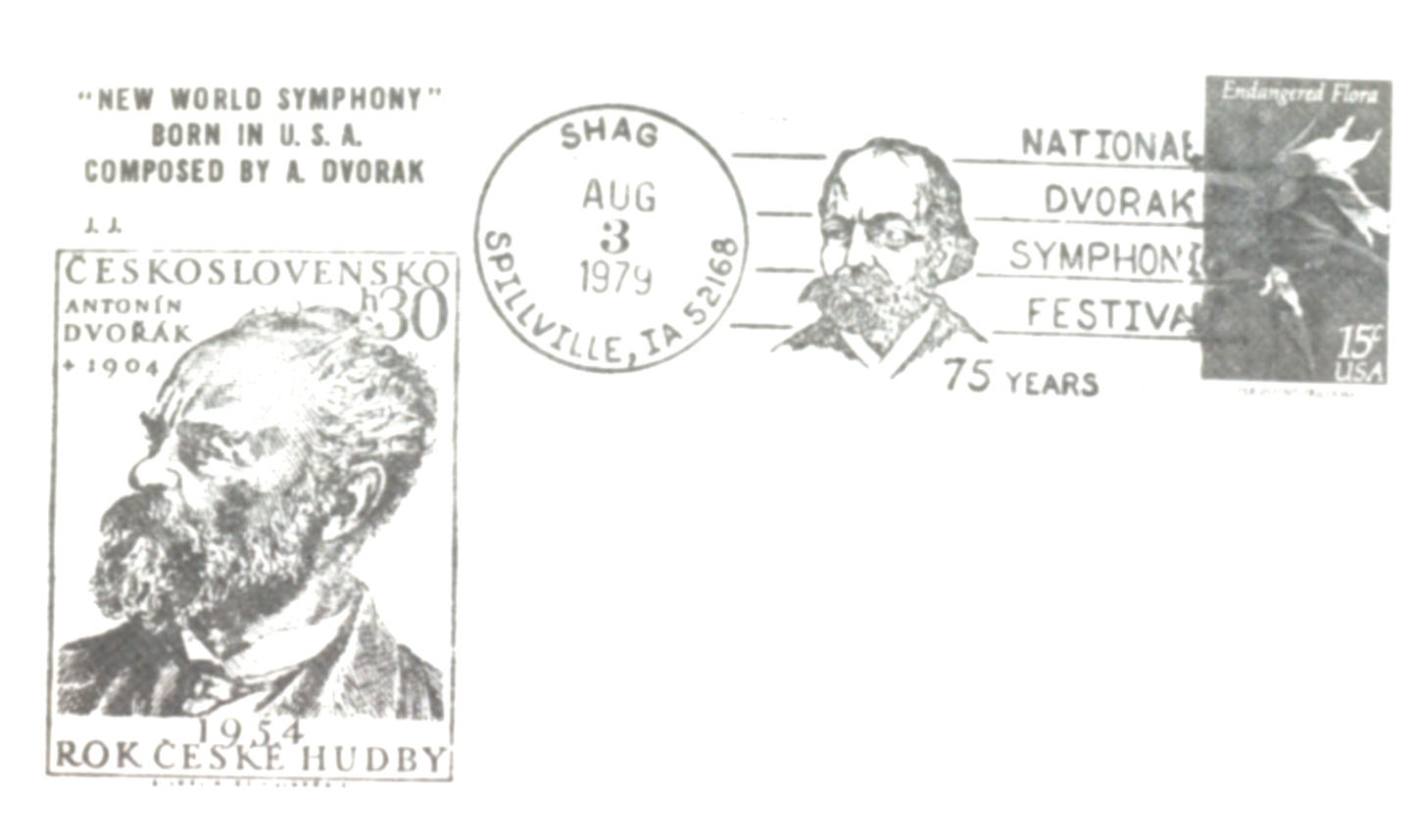 postcards collection